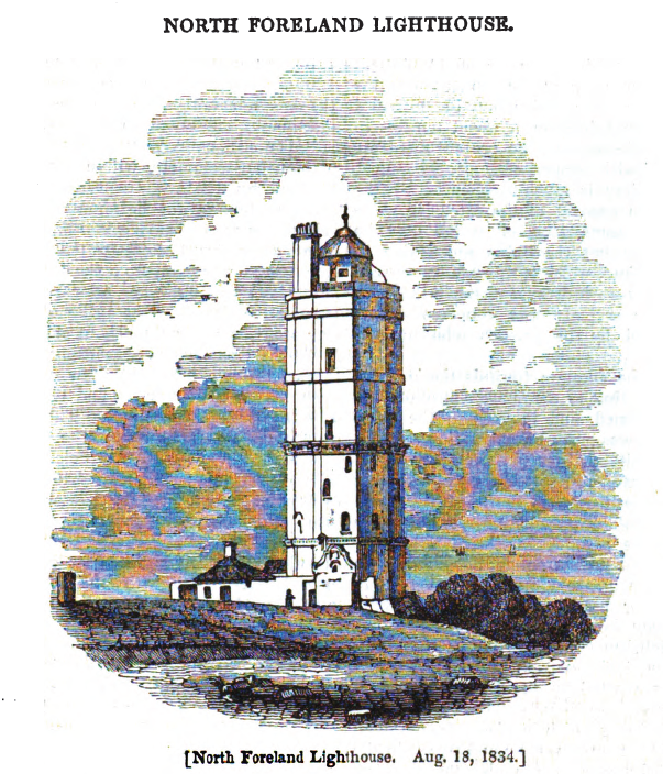 Illustration of North Foreland Lighthouse. Built in 1691. Height 26 Metres